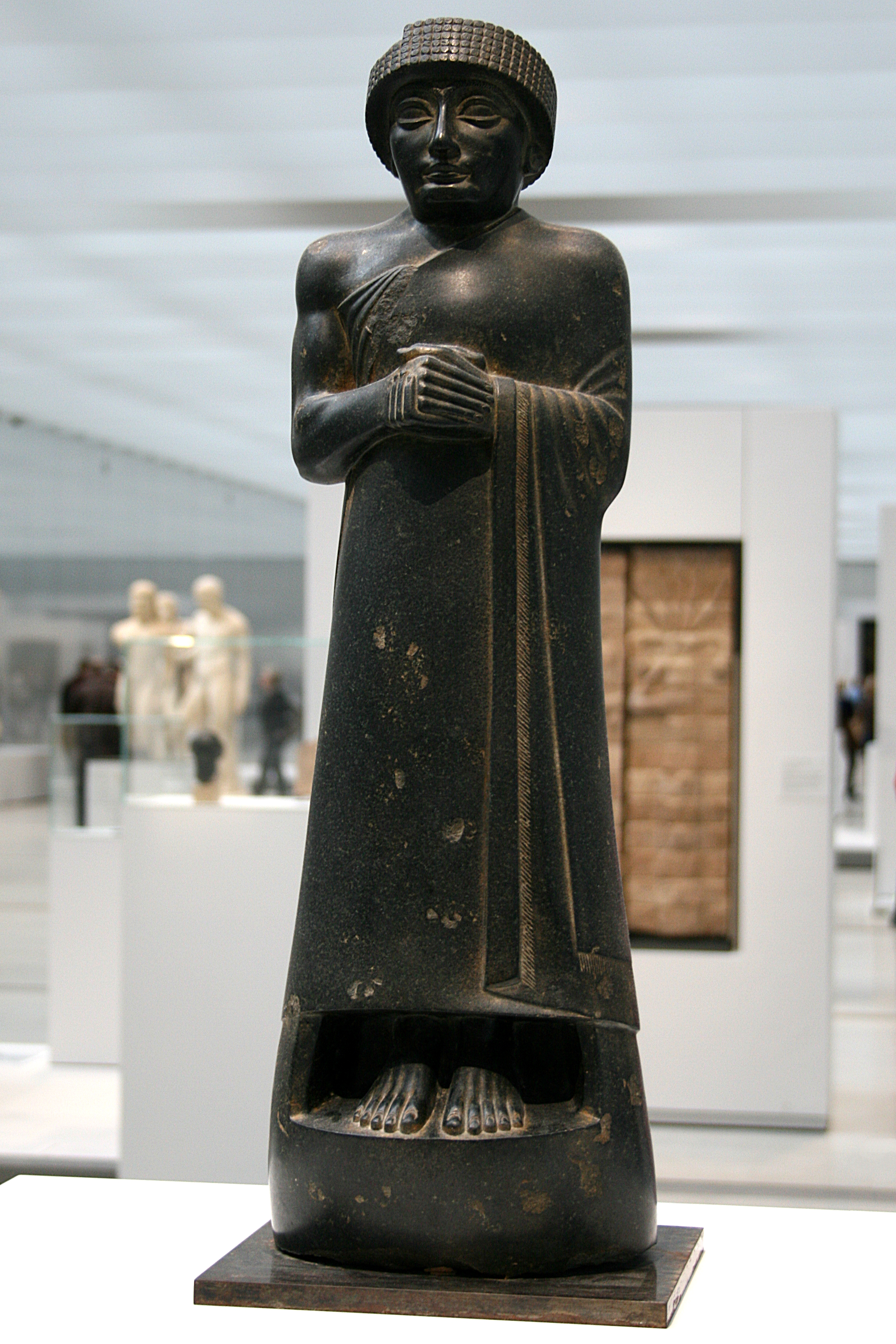 Source: Girsu (now Tello), Mesopotamia (Iraq today).